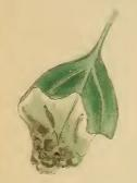 Stainton’s Natural History of the Tineina (1855–1873): Chrysoesthia sexguttella mined Atriplex leaf